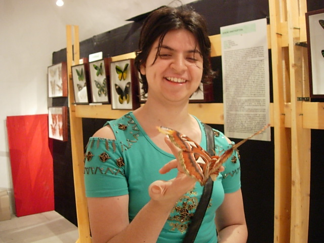 Attacus atlas in an expo